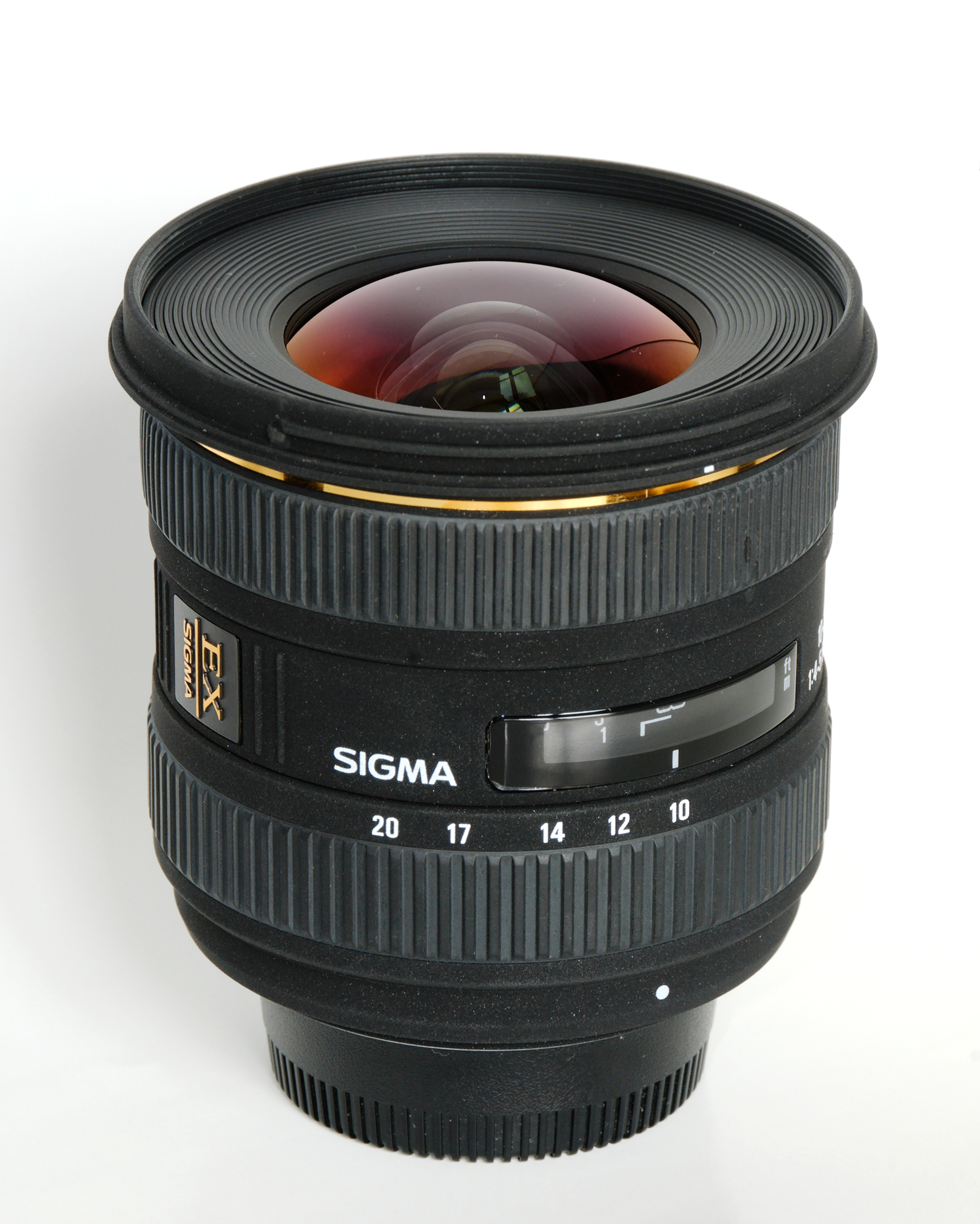 Wide-angle zoom lens Sigma 10-20mm f/4-5.6 EX DC HSM.